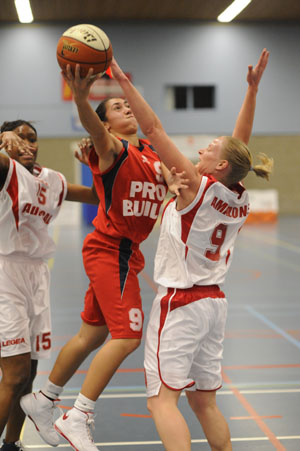 Moment in Probuild Lions game